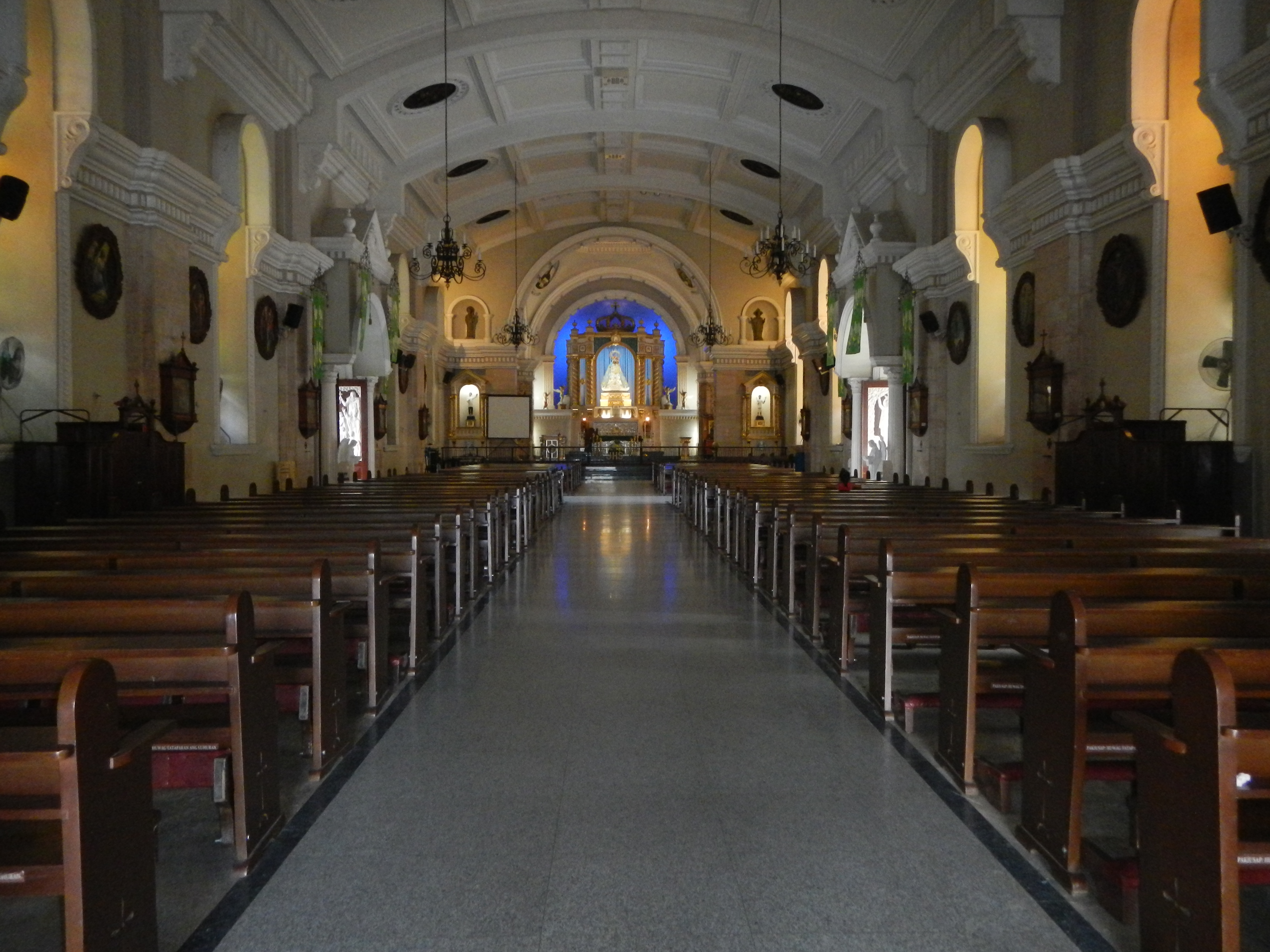 Orani Church declared independent parish on April 21, 1714, Our Lady of the Most Holy Rosary Parish Church ("Our Lady of the Rosary of Orani Church", "Nuestra Señora del Rosario Parish Church", "Simbahan ng Orani" or "Virgen Milagrosa Del Rosario del Pueblo de Orani Shrine"), Roman Catholic Diocese of Balanga in Barangay Bayan, Centro I (Poblacion), Orani, Bataan.